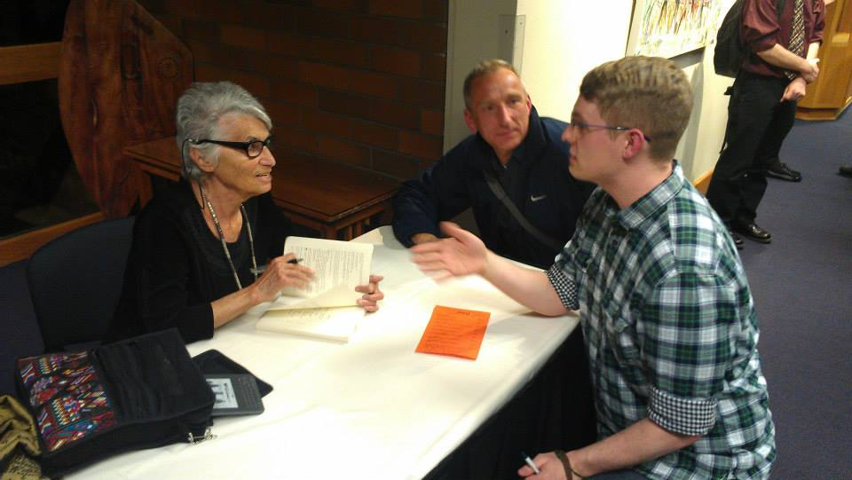 Ruth Kluger (left) and Konrad Juengling (far right) talking at the Oregon State University Holocaust Week 2013.